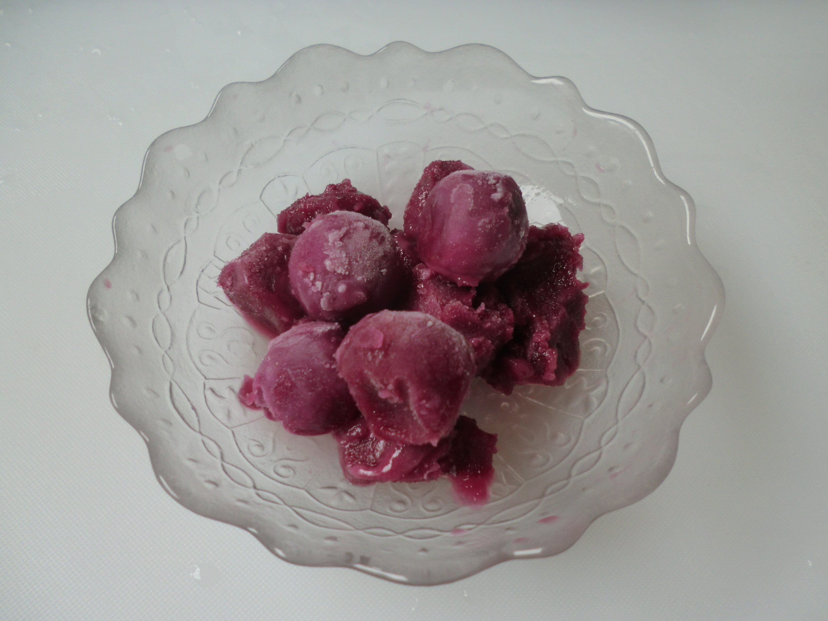 "Ice no Mi" (fruit of Ice), Japanese Ice lollipops mede by Ezaki Glico Company.